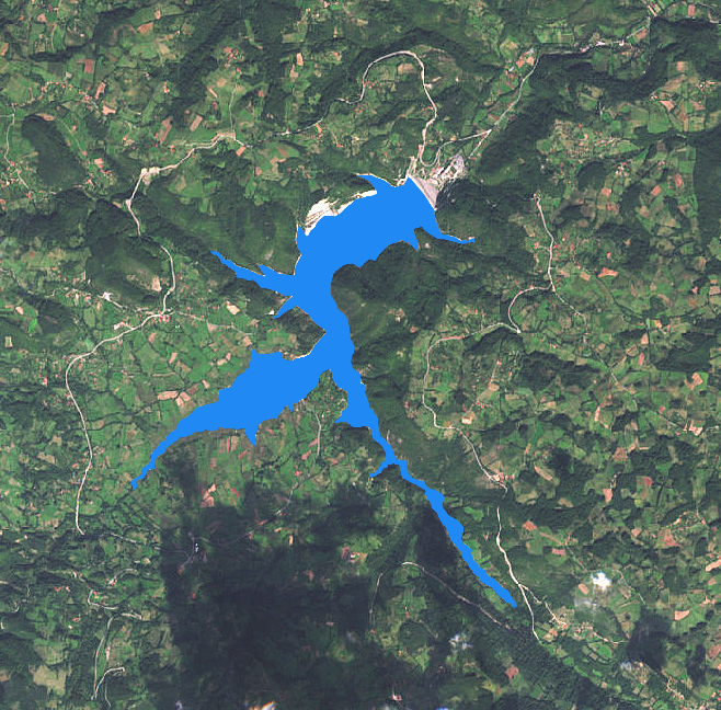 Planned map of Accumulation Rovni